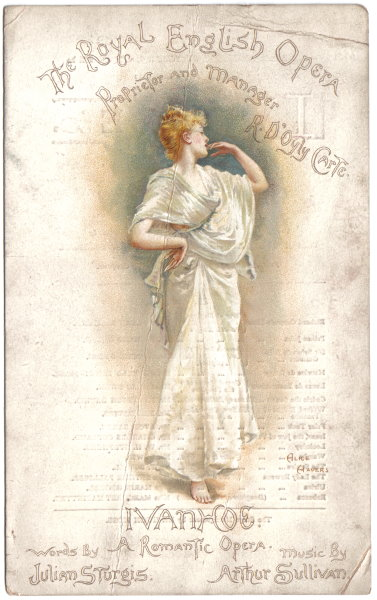 Souvenir programme for the first night of Arthur Sullivan's Ivanhoe (1891)